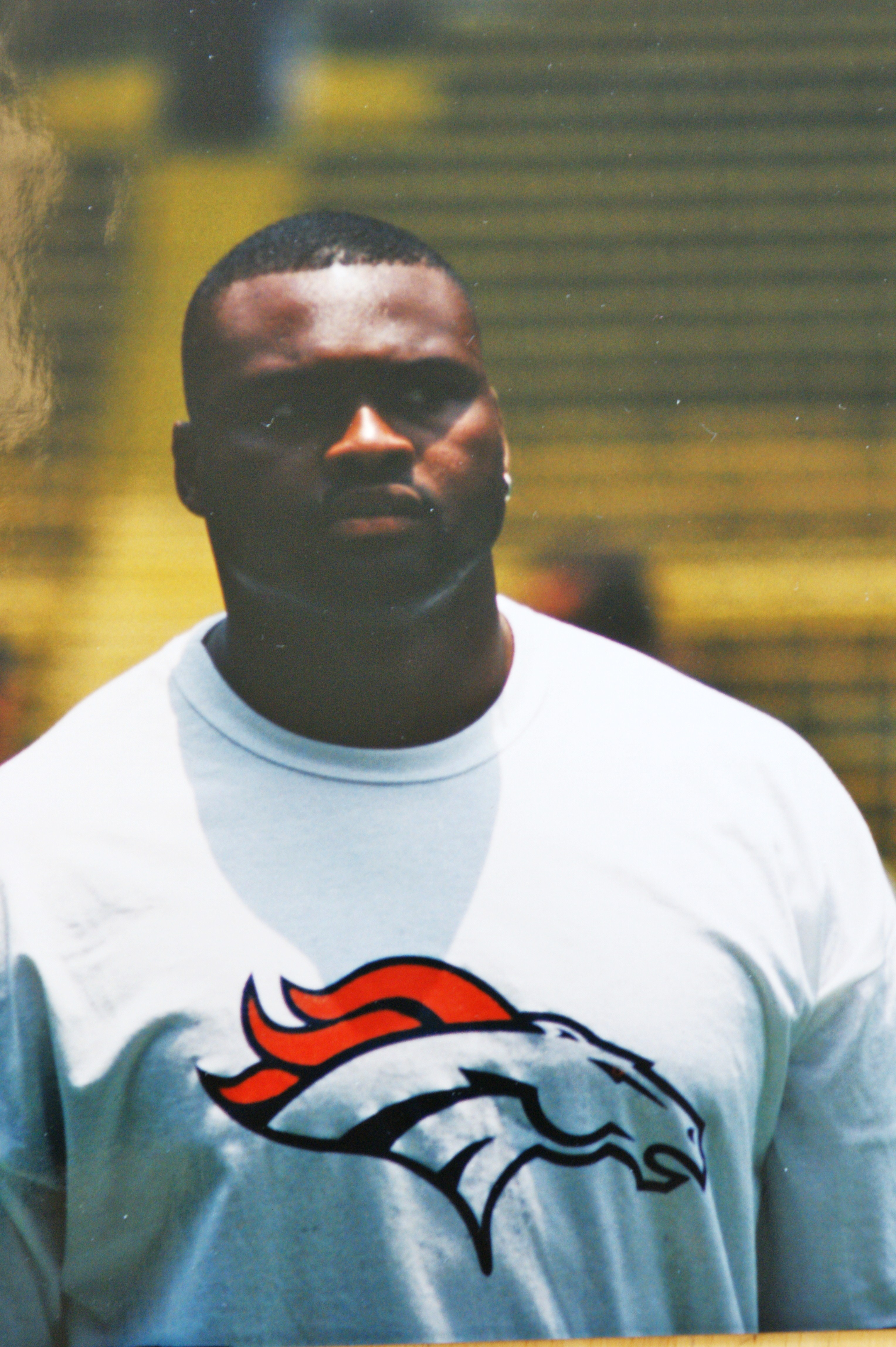 Neil Smith during Denver Broncos training camp sometime 1997-1999.